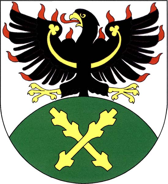 Municipal coat of arms of Kublov village, Beroun District, Czech Republic